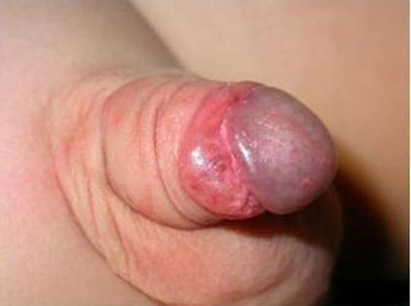 Multiple pyogenic granuloma of the penis, ventral view.